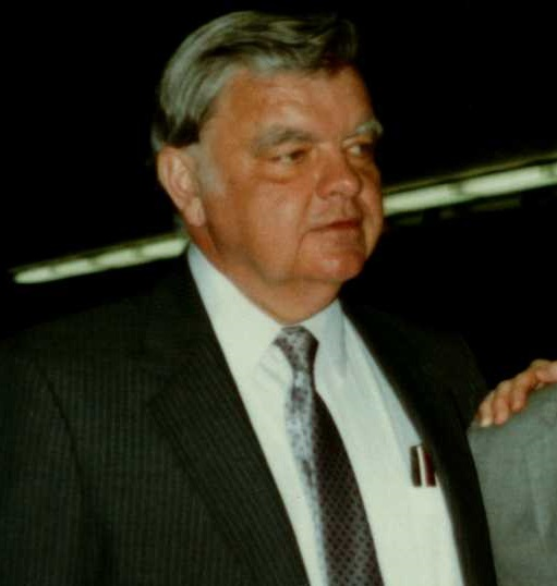 Cropped photo of Eugene Kusielewicz taken by me at St. John's University in Jamaica, New York on May 30, 1989.